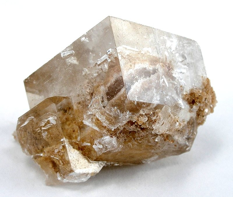 Inyoite, Meyerhofferite Locality: Monte Azul deposit, Sijes, Salta, Argentina (Locality at ) Size: 5.7 x 4.1 x 3.1 cm. A razor-sharp crystal, to 3.5 cm on edge, and extremely impressive in person! One of my favorite miniatures here, this one LOOKS like it has a different crystal form almost, because of the sharp angular nature of its rhombohedral crystals, elongated steeply in one direction. A few gemmy, discrete Meyerhofferite crystals are included inside.